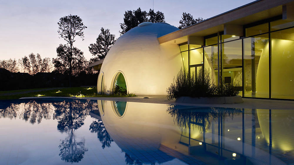 Outside pool of the spa in the bavarian city Bad Aibling.